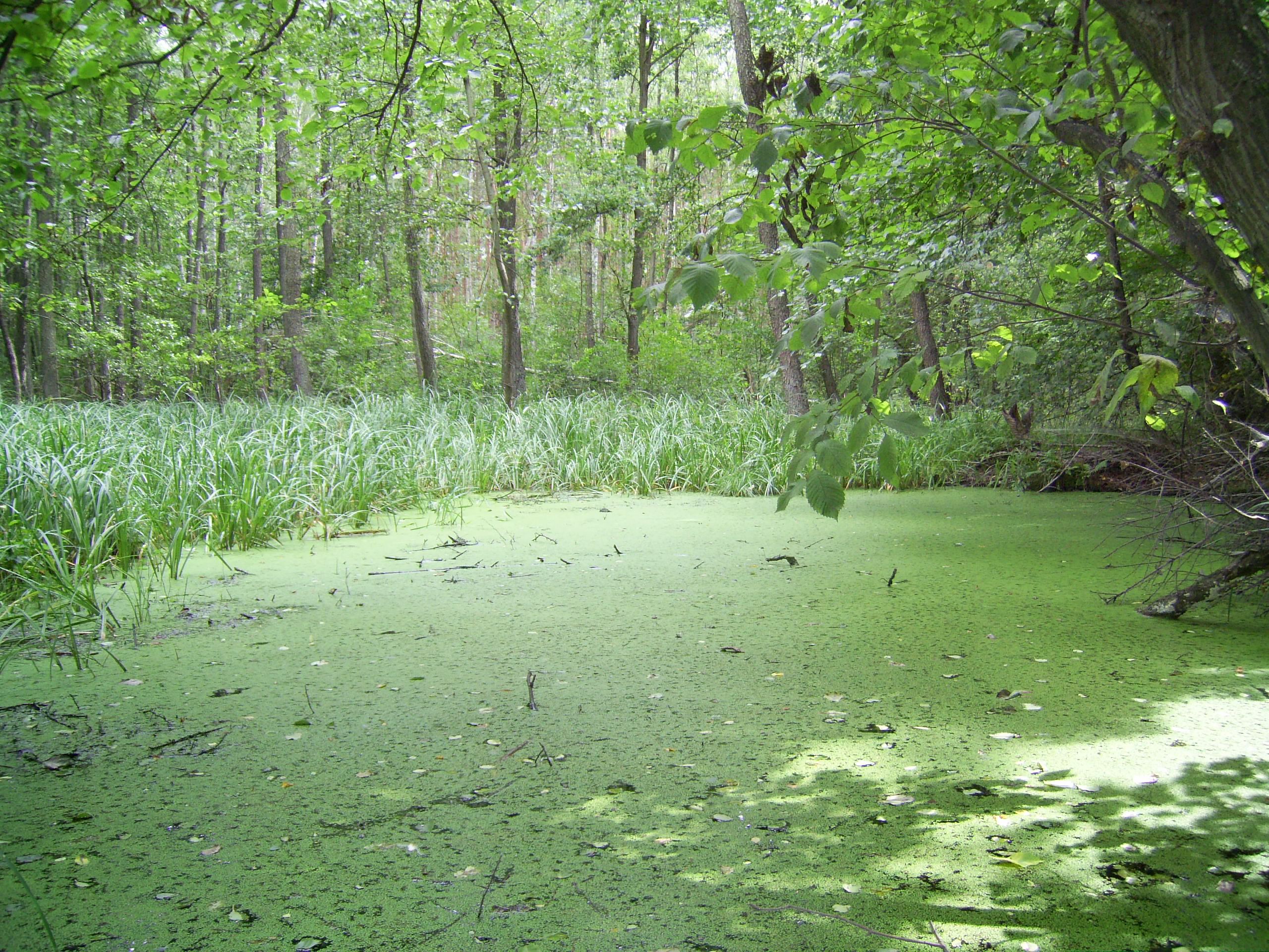 Marsh in Uroczysko Wrzosy nature reserve, Lower Silesian Voivodeship, Poland